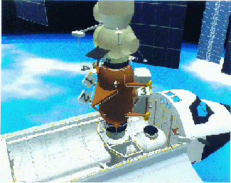 A diagram showing the locations of the four Mir Environmental Effects Payloads as installed on the station's docking module during STS-76; the Polished Plate Micrometeoroid and Debris experiment (1), the Orbital Debris Collector (2) and the Passive Optical Sample Assembly I (4) and II (3).